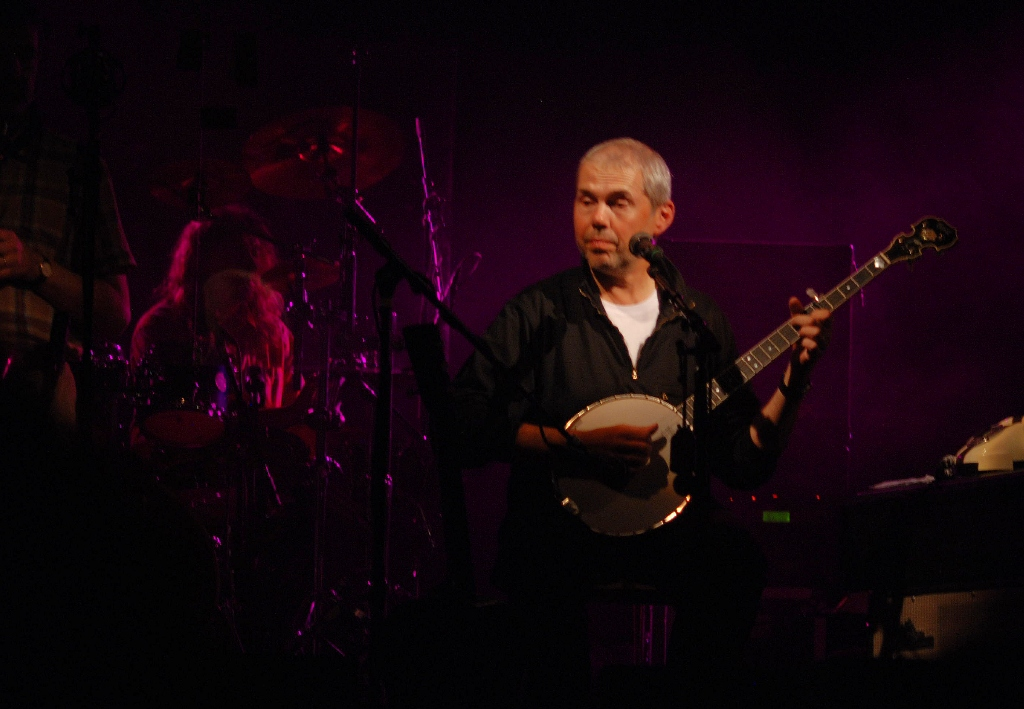 Marek Eben in concert